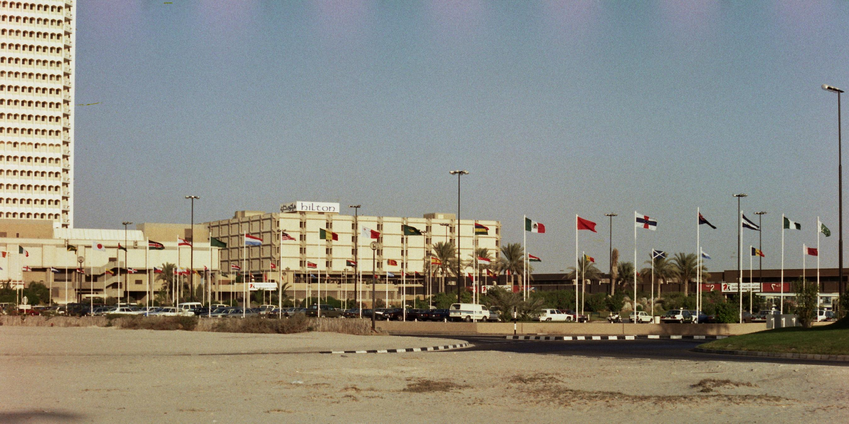 Dubai, Chess Olympiad 1986 in the wilderness (left: Trade Centre, right: tournament hall), Photographer Gerhard Hund.